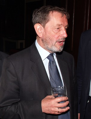 with former Home Secretary David Blunkett MP at the launch of the Great British Business Alliance, May 2009.